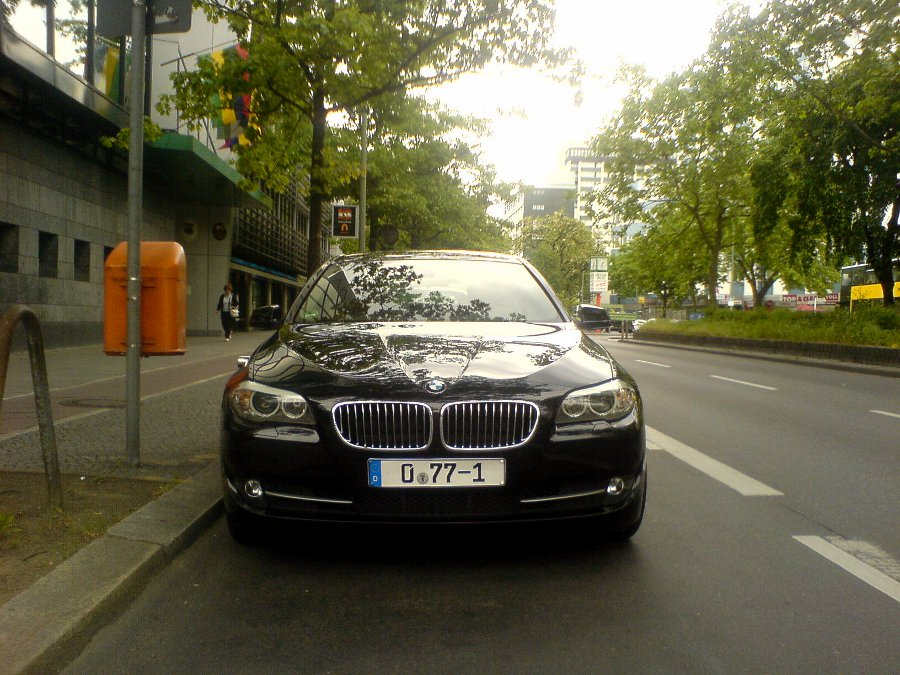 BMW of the Colombian Embassy in Berlin, Germany